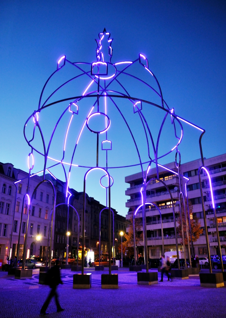 Memoria Urbana Berlin. Juan Garaizabal. Agosto 2013